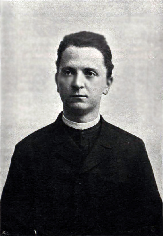 Portrait of Károly Majláth Gusztáv